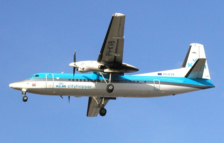 Fokker 50 of KLM on the approach to London (Heathrow) Airport. Photographed by Adrian Pingstone in July 2002 and released to the public domain.